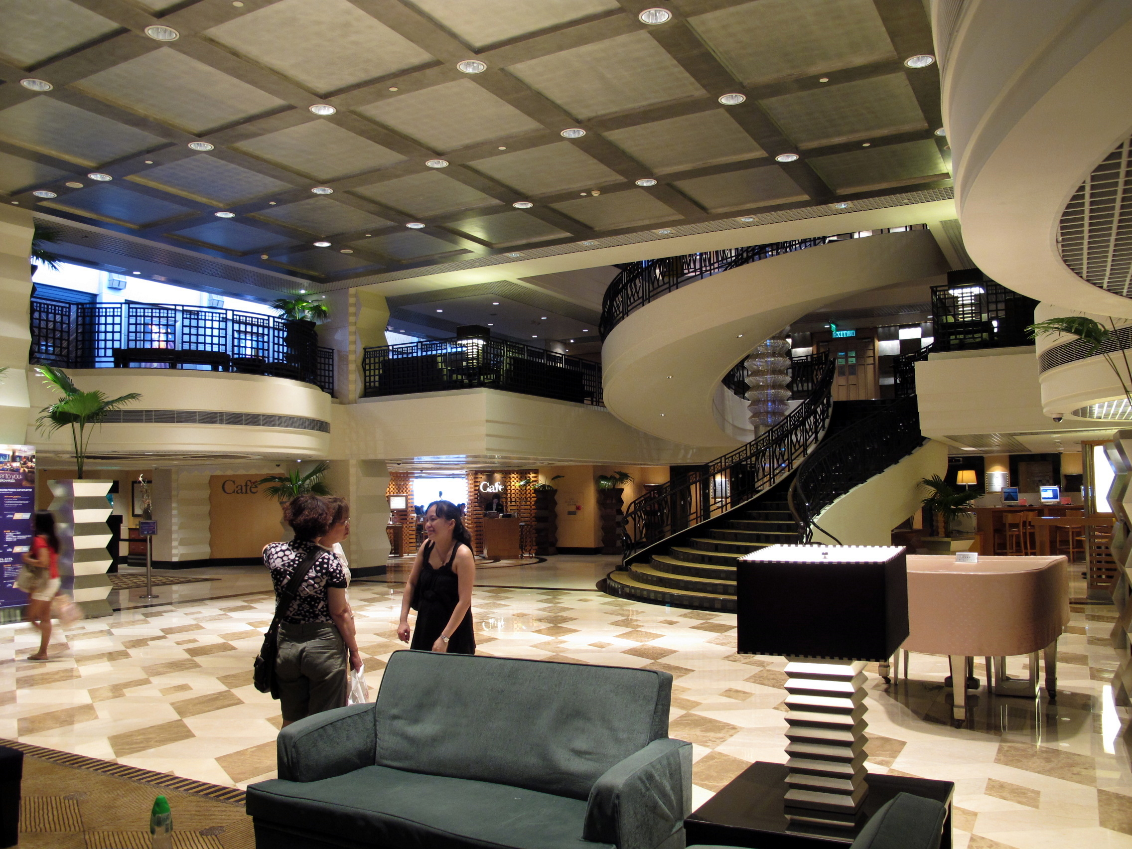 Sheraton Hong Kong Hotel Lobby